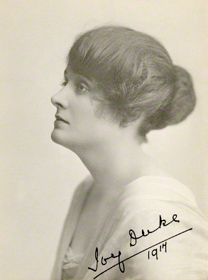 English actress Ivy Duke.